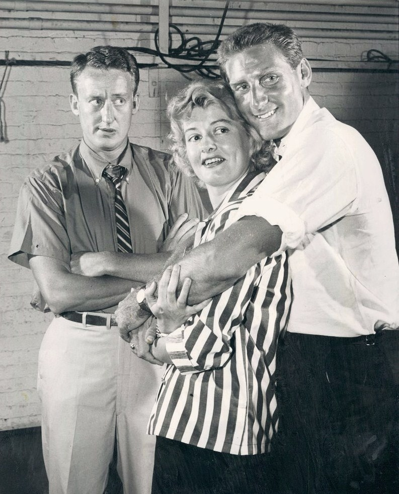 L. to R. : Tom Poston, Constance Ford & Robert Elston in the Lorenzo Semple, Jr. play's Golden Fleecing, Broadway - publicity still (cropped)